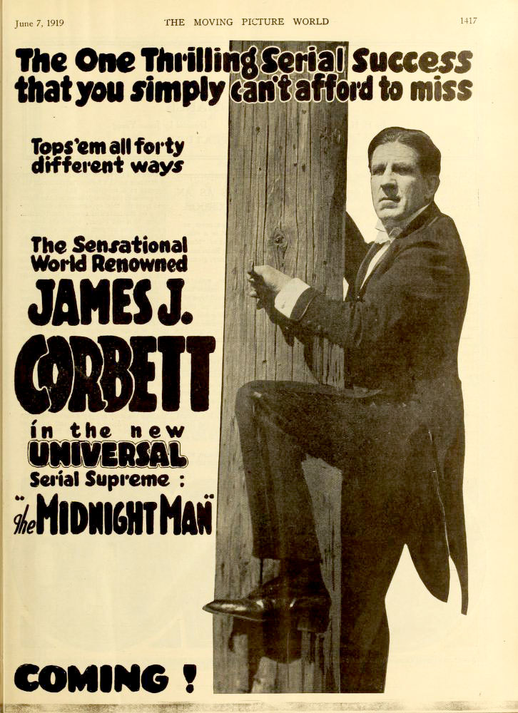 Advertising for the film serial The Midnight Man (1919) with James J. Corbett in The Moving Picture World.